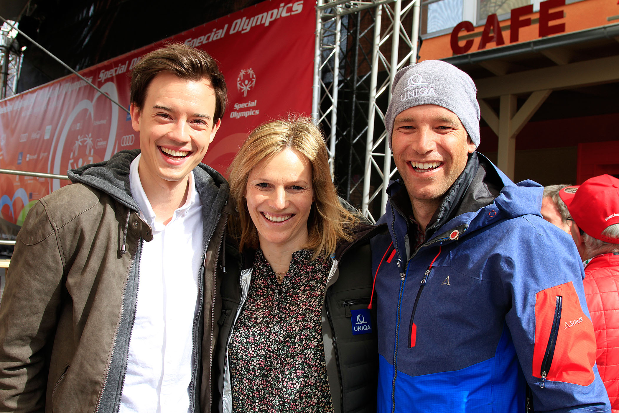 Marlies and Benni Raich at the 2017 Special Olympics World Winter Games, Schladming, Austria.